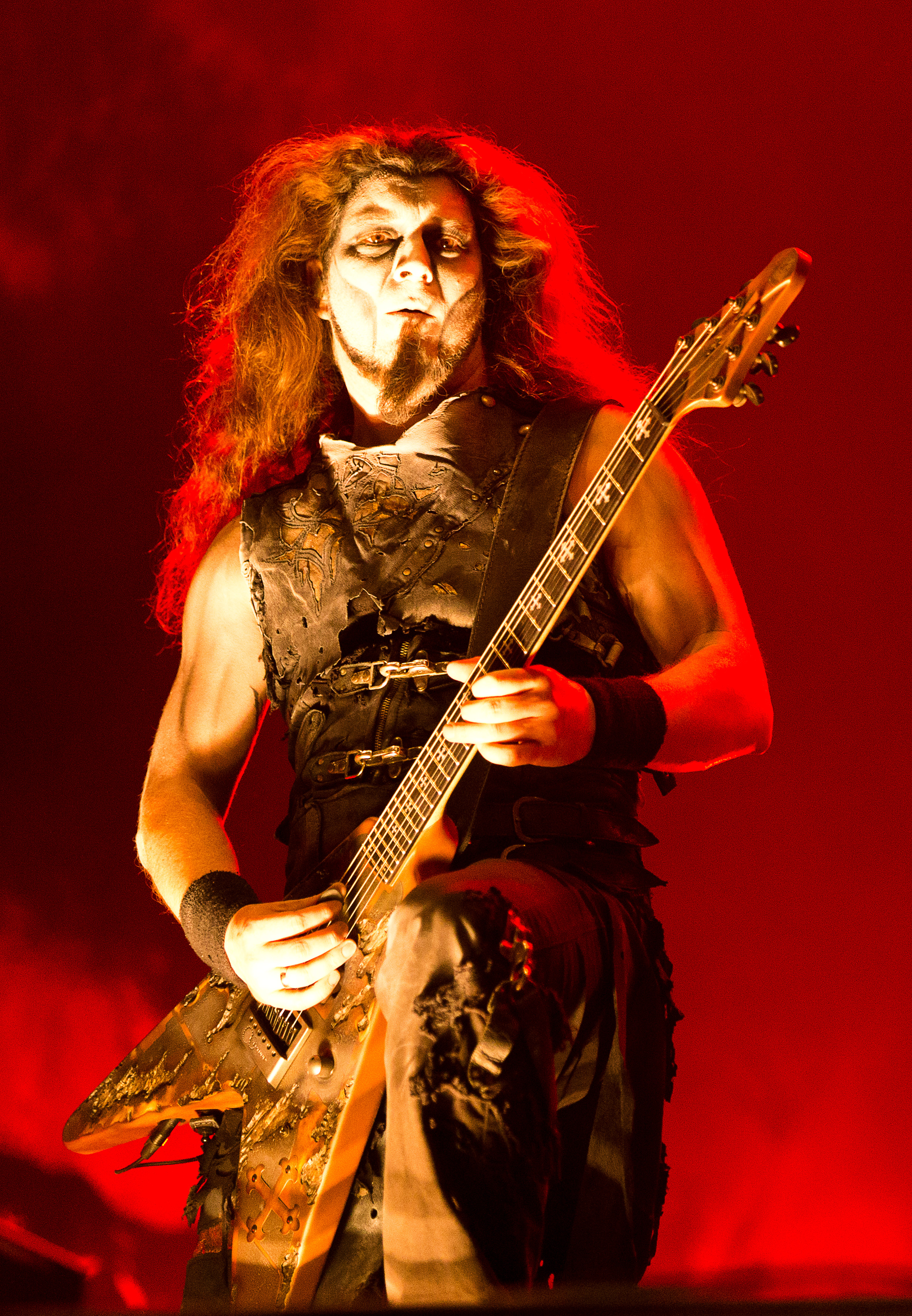 The German power metal band Powerwolf at the Rockharz Open Air 2016 in Ballenstedt/Germany.